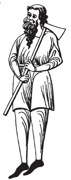 Dermot Mac Murrough - King of Uí Cheinnsealaig and King of Laigin (Leinster) - the man who invited the Normans to Ireland. It is believed that this is true representation of Dermot, taken from life. Source: W.R. Wilde (d. 1876), "A Descriptive Catalogue of the Antiquities in the Museum of the Royal Irish Academy", Vol. 1 (Dublin & London, 1863), p. 310. This is a Wood Engraving of an illustration that appeared in a manuscript of one of Gerald de Barry's works. [Gerald de Barry is also called Giraldus Cambrensis or Gerald of Wales]. The original is in colour.